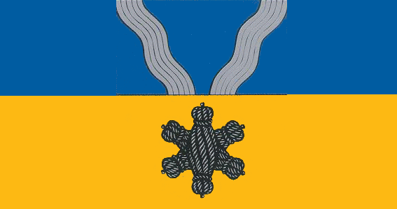 Flaf of Kupiškis